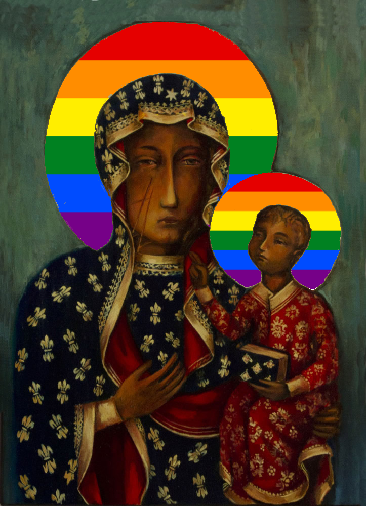 Black Madonna of Częstochowa with rainbow halos, which is similar to designs from Pride Parade in Częstochowa.